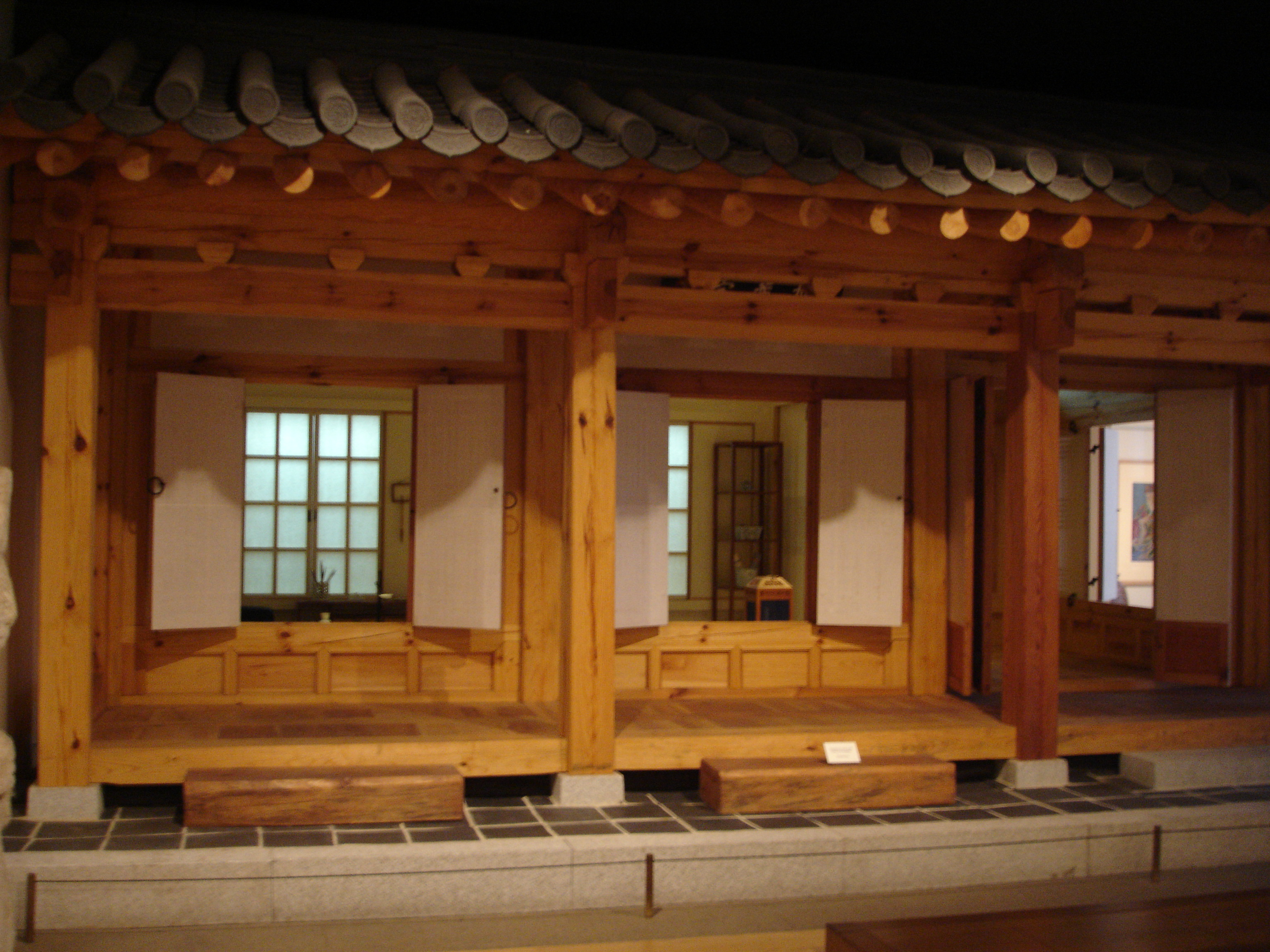 Own Work 2007 British Museum Department of Asia